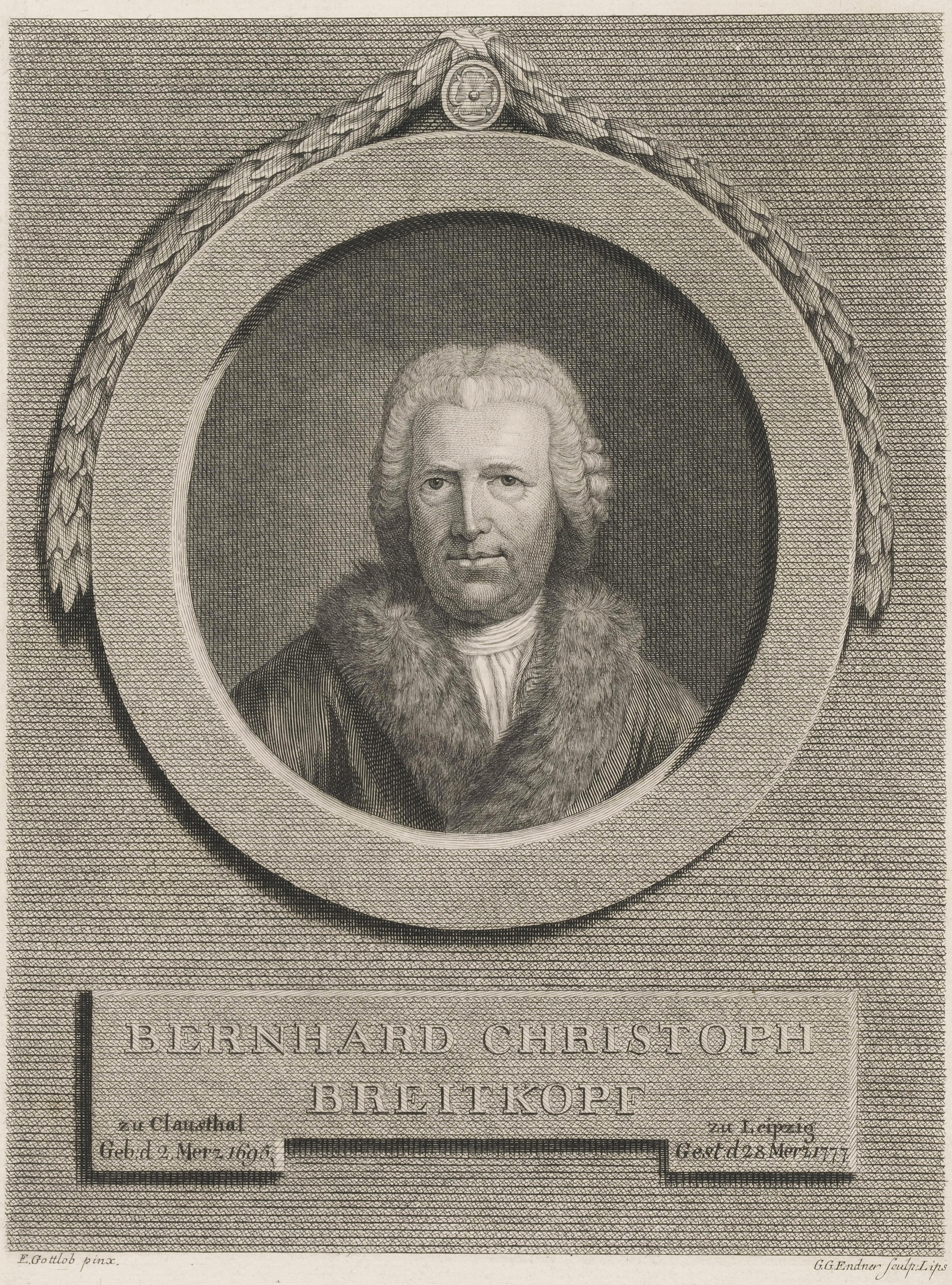 Depicted person: Bernhard Christoph Breitkopf